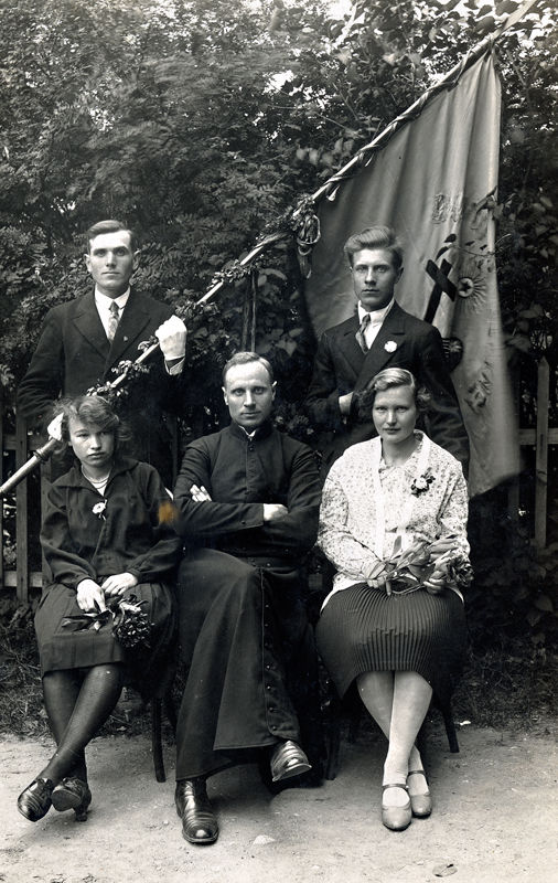 Broad members of Catholic Youth Organization Pavasaris with a local priest in Darbėnai, Kretinga District